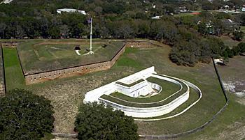 Photo of Fort Barrancas taken from west of fort.